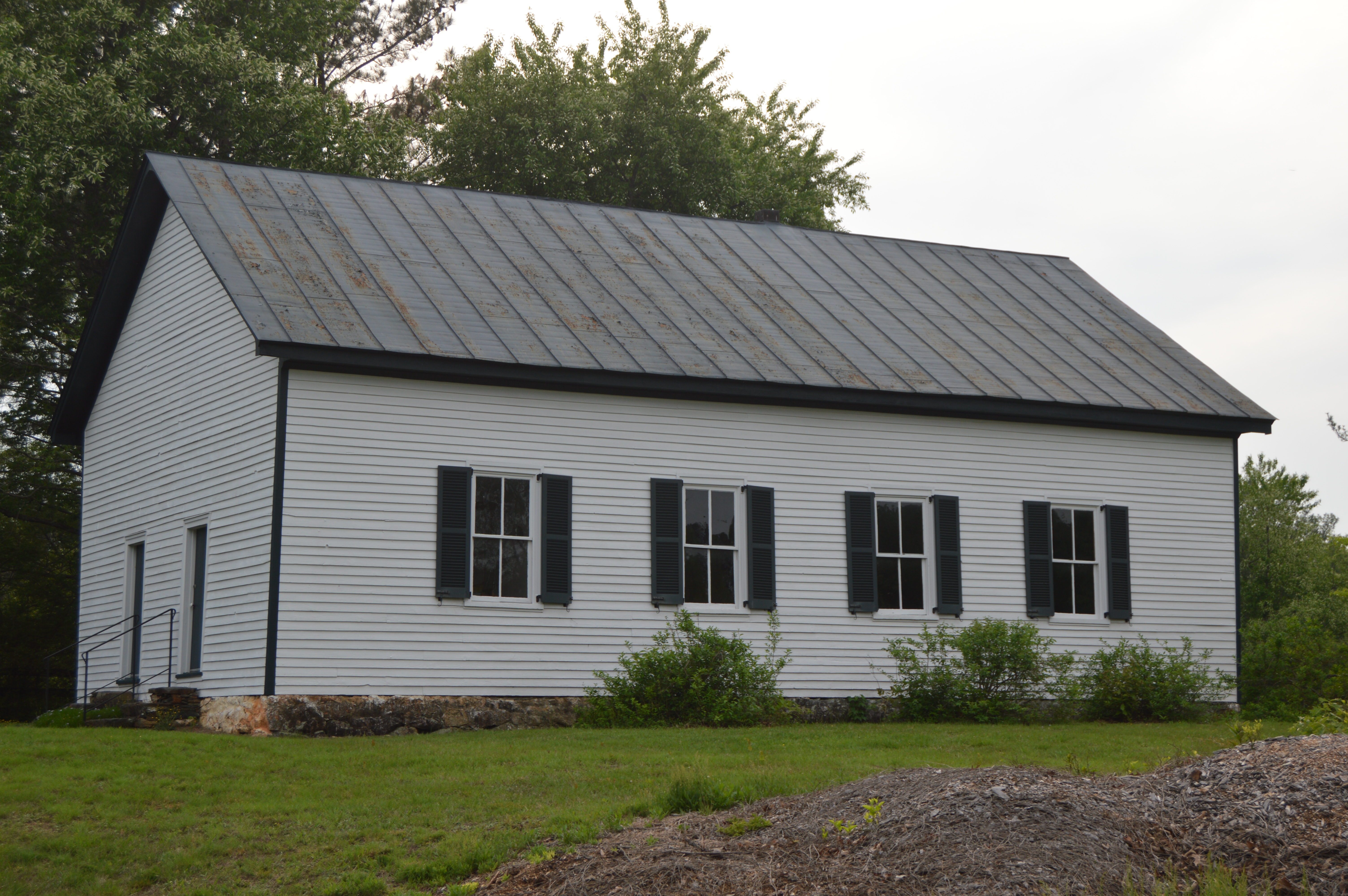 Eastern side and front of the Earlysville Union Church, located on Earlysville Road north of Charlottesville in Albemarle County, Virginia, United States. Built in 1833, it is listed on the National Register of Historic Places.